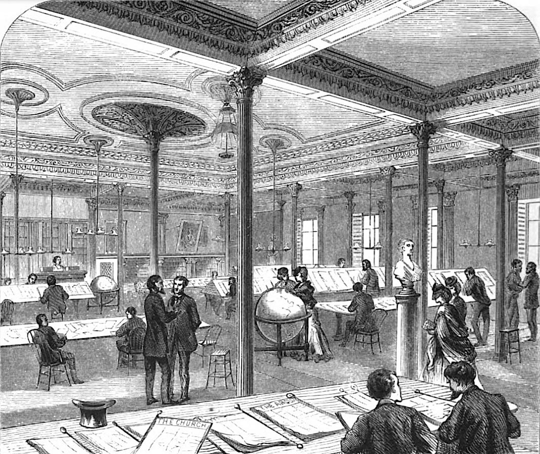 Mercantile Library Association, Astor Place, New York City. Caption in Scribner's: "The Reading-Room."